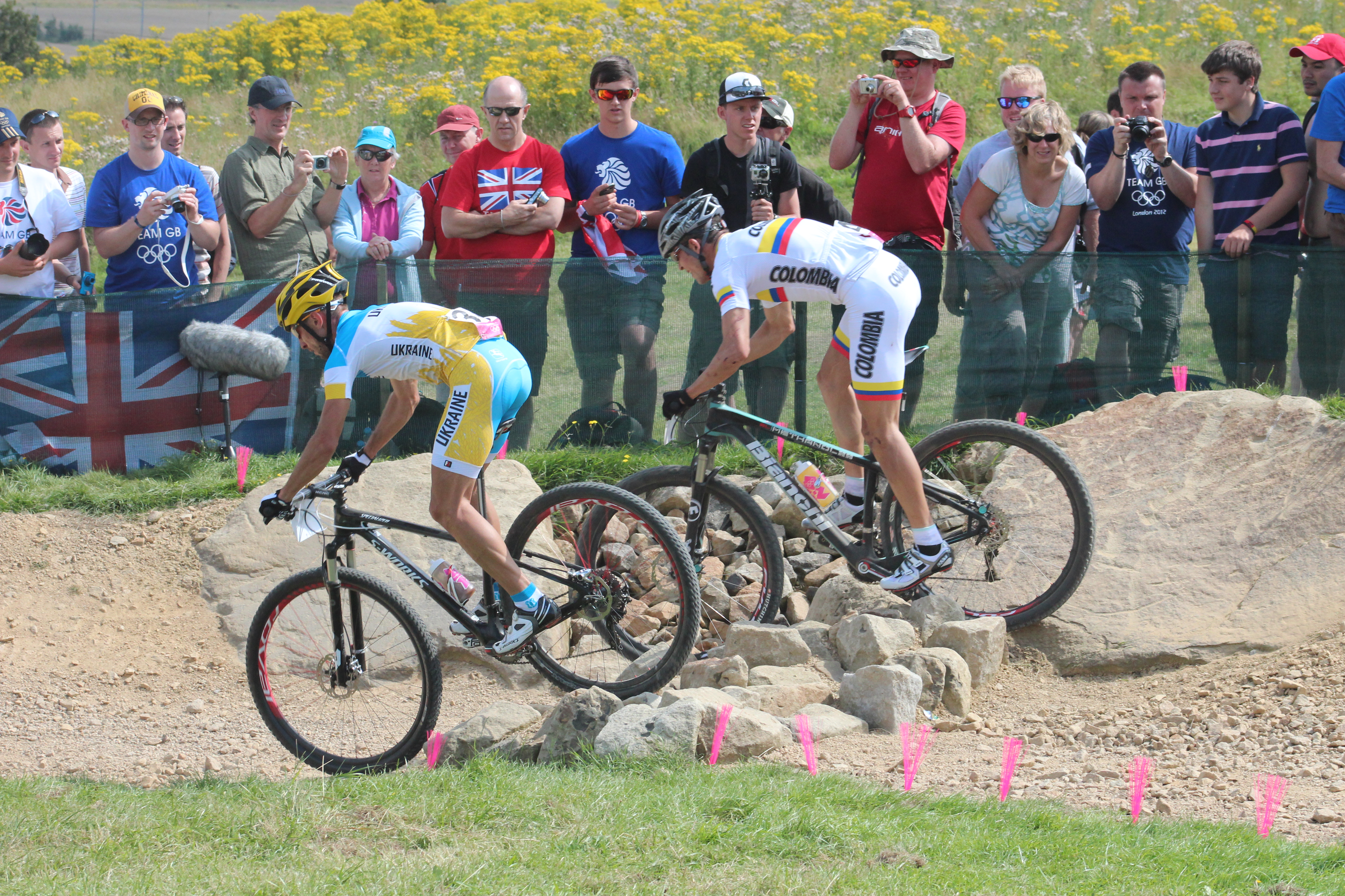 Cycling at the 2012 Summer Olympics – Men's cross-country. 12 August 2012. Hadleigh Farm. Serhiy Rysenko (36) (UKR) Hector Páez (43) (COL)